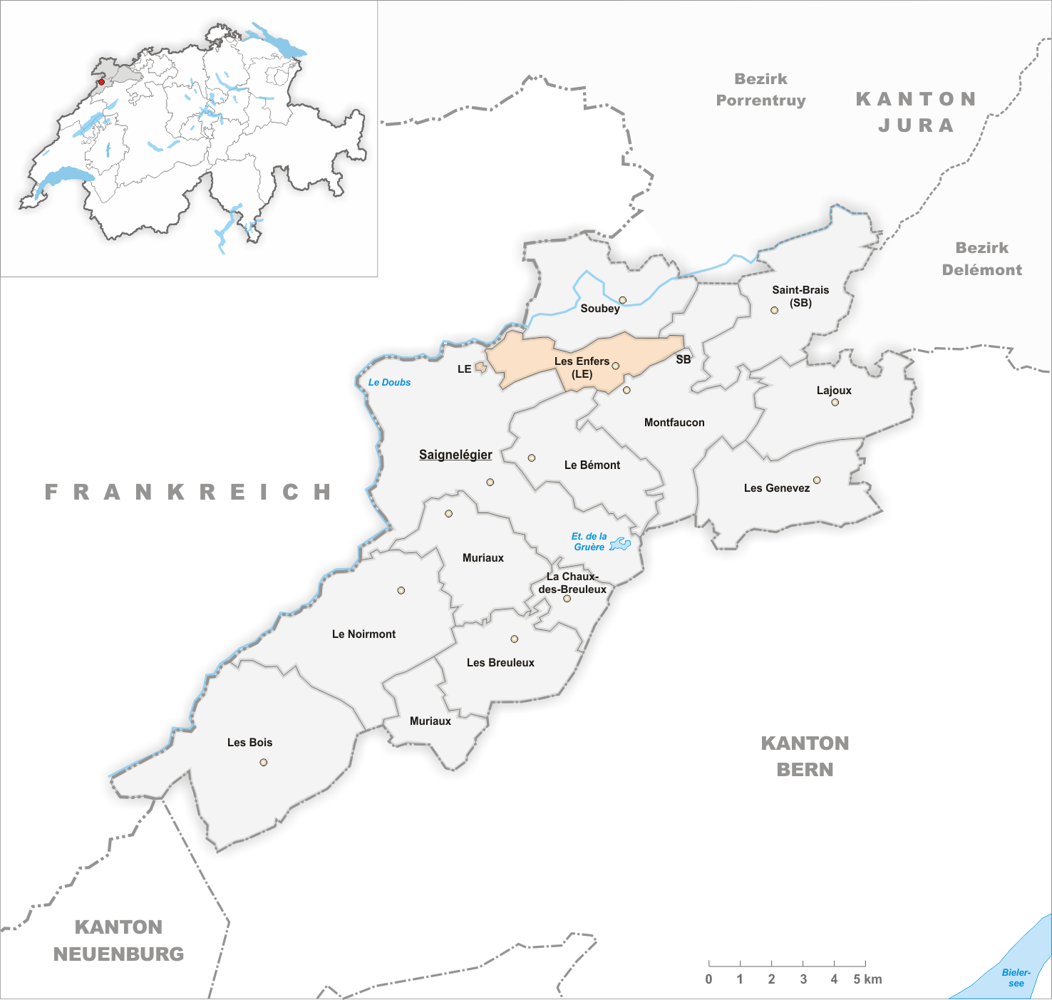 Municipality Les Enfers